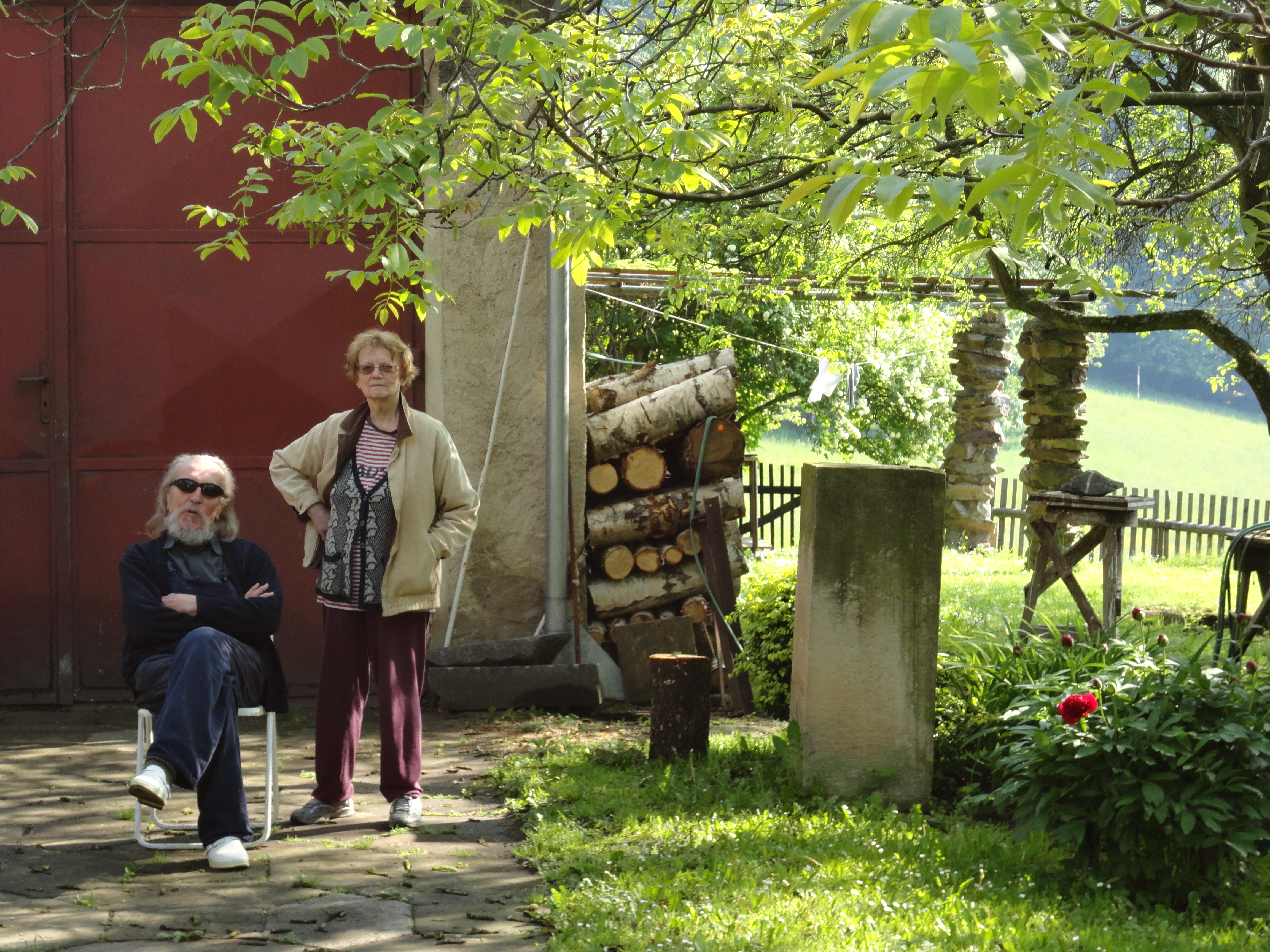 Stanislav Hanzik with his wife Kveta († 2012) in front of his studio in Krizatky in the Ore Mountains